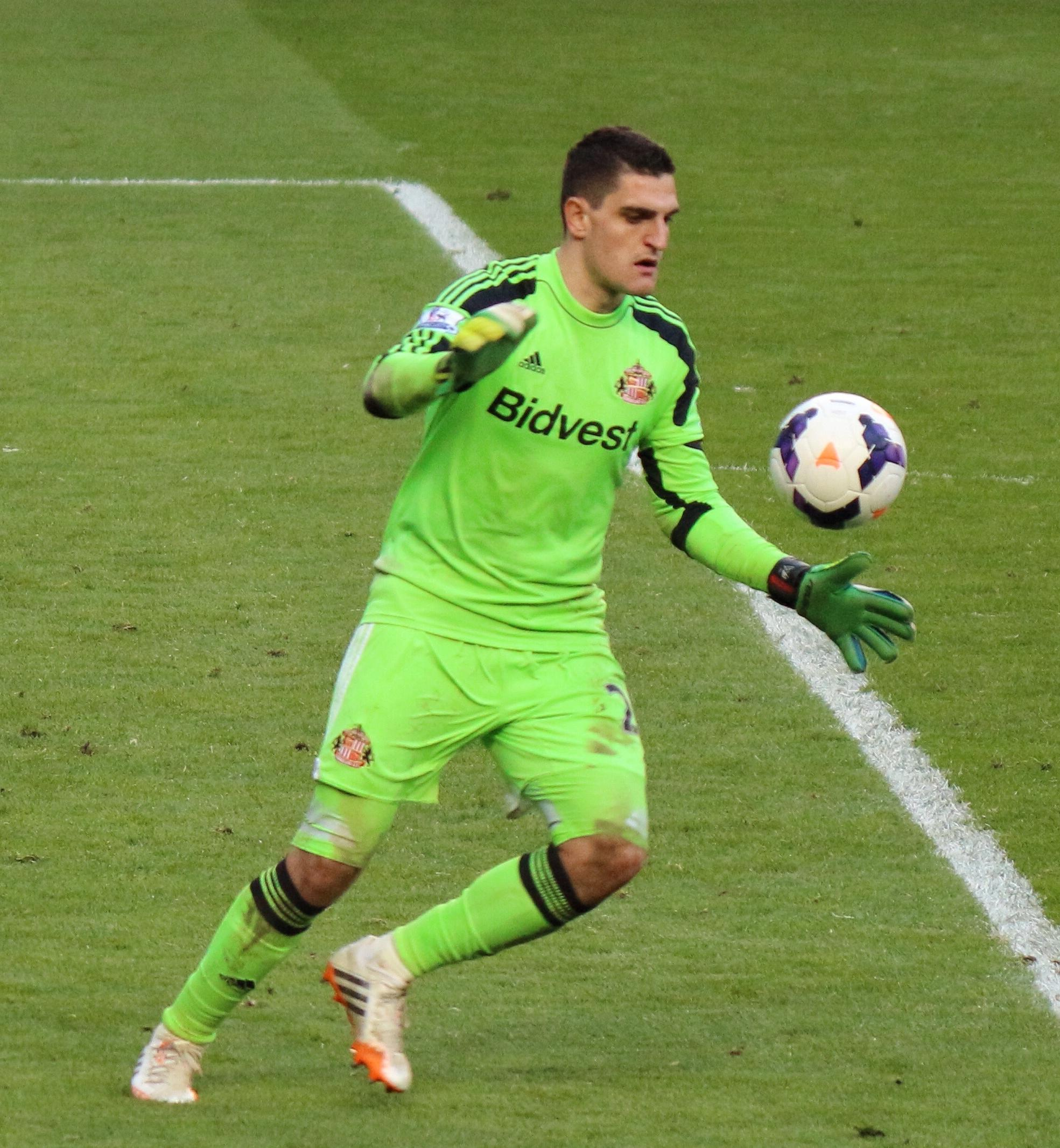 A bad day at the office, where a combination of questionable refereeing decisions and our inability to convert countless chances.